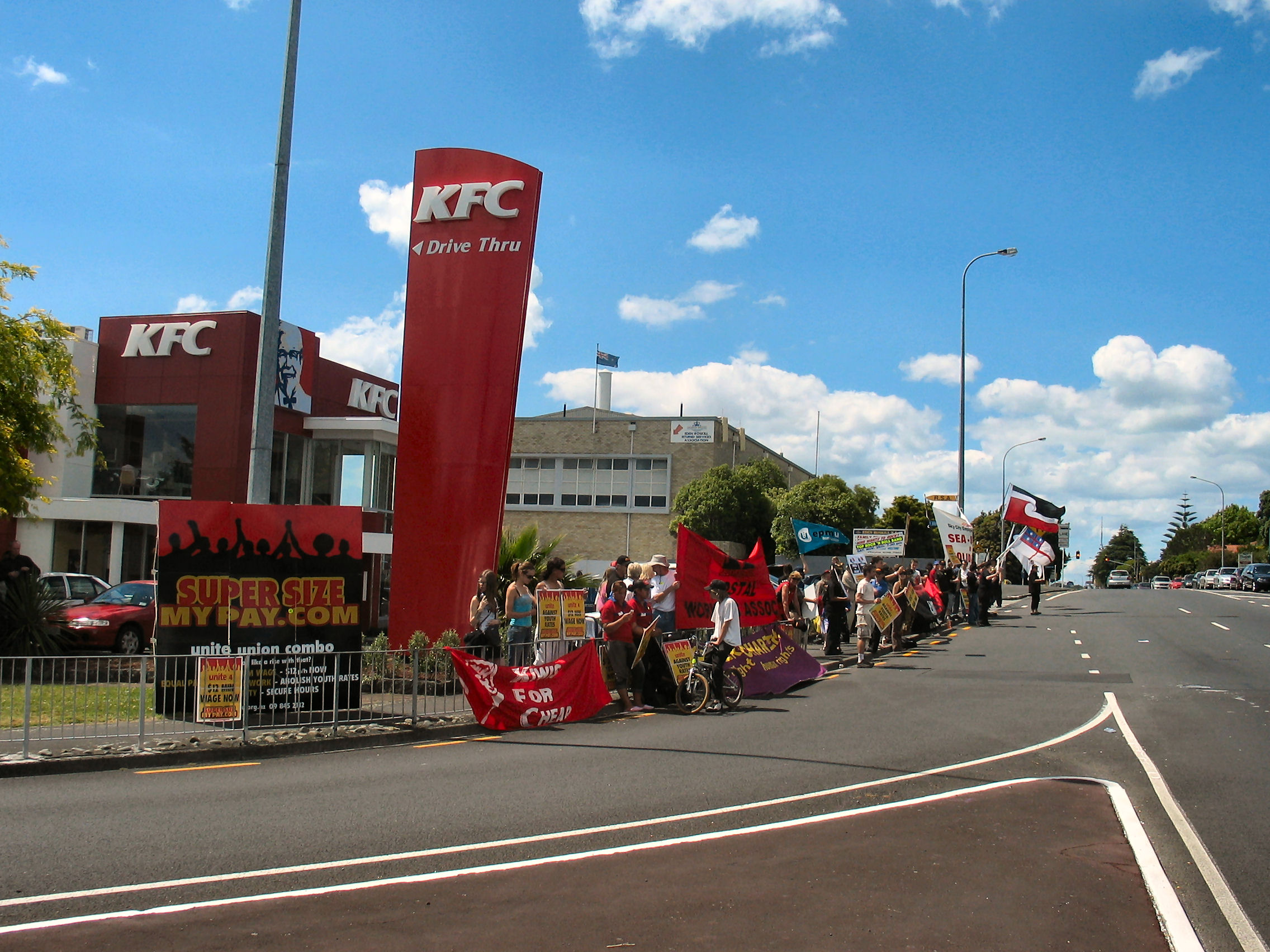 Picket line outside Balmoral KFC in Auckland, New Zealand. December 2005.